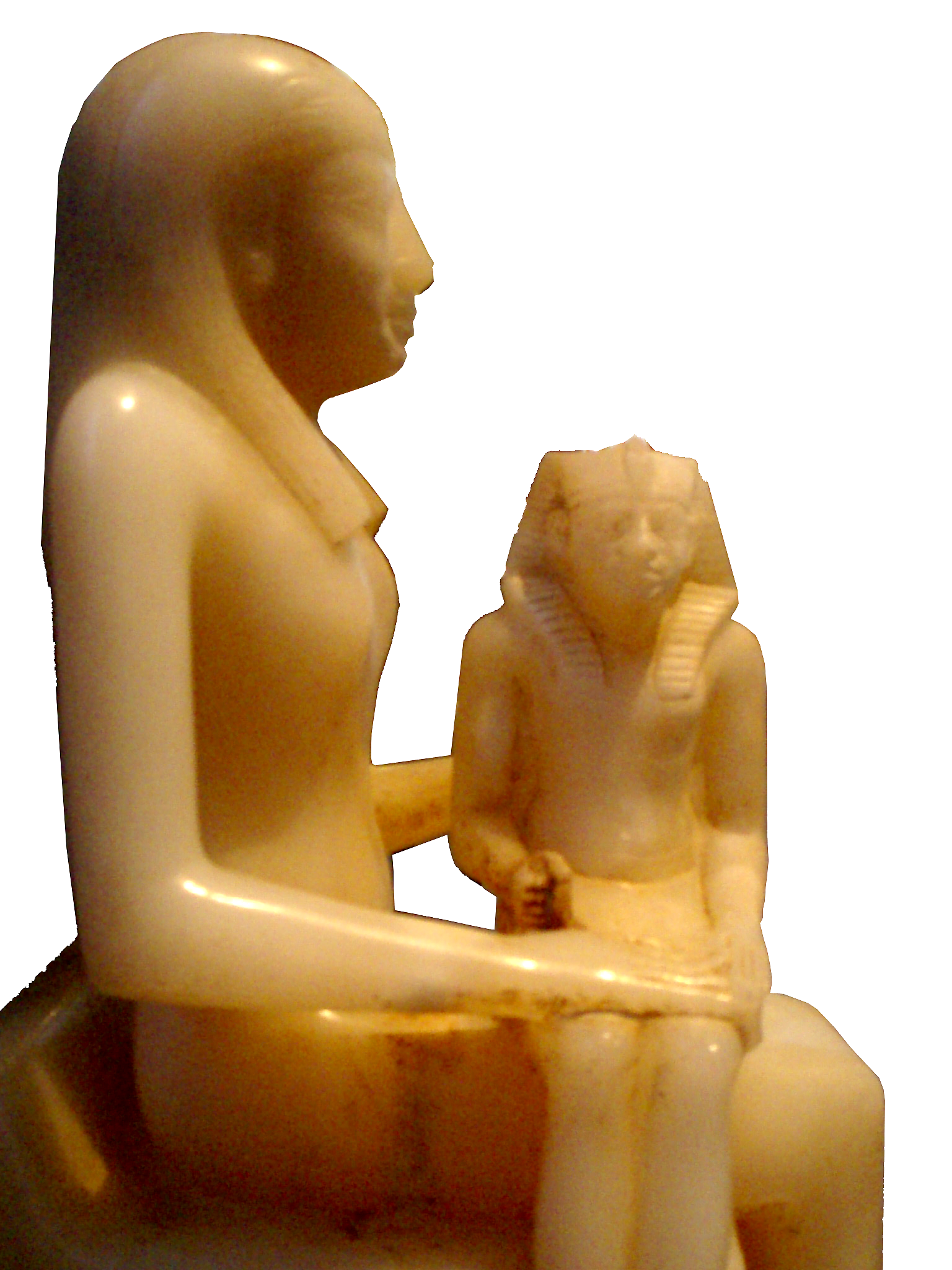 Alabaster statue of Ankhnesmeryre II and her son Pepi II. Dynasty 6, circa 2288-2224/2194 B.C. Background cropped away.